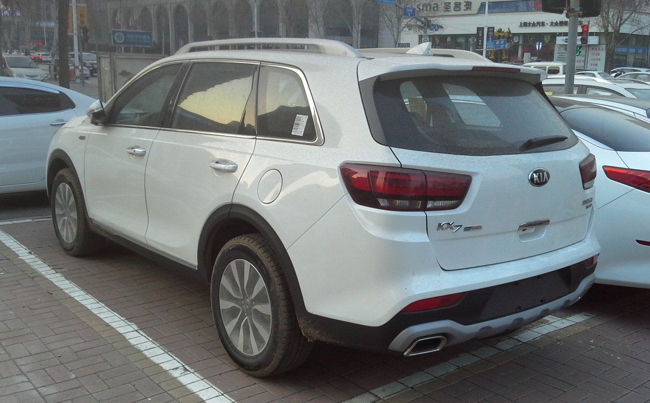 Kia KX7 photographed in Shenyang, Liaoning province, China.